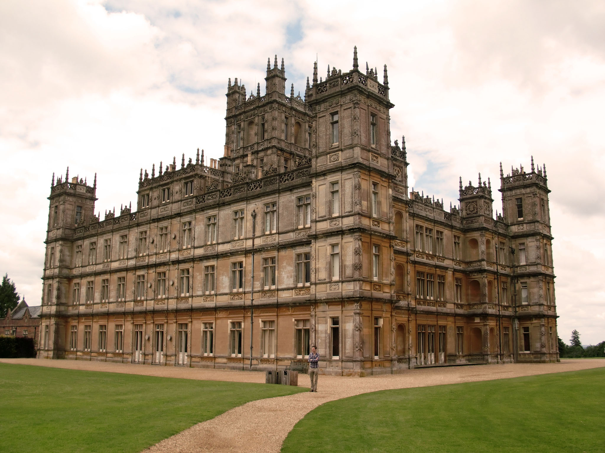 Highclere Castle